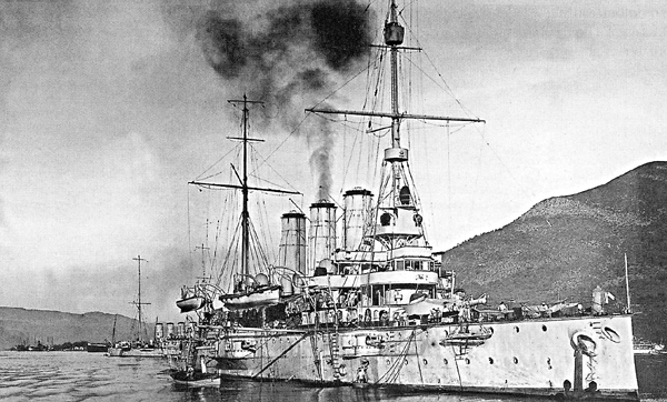 The Austro-Hungarian cruiser, SMS Kaiser Karl VI.